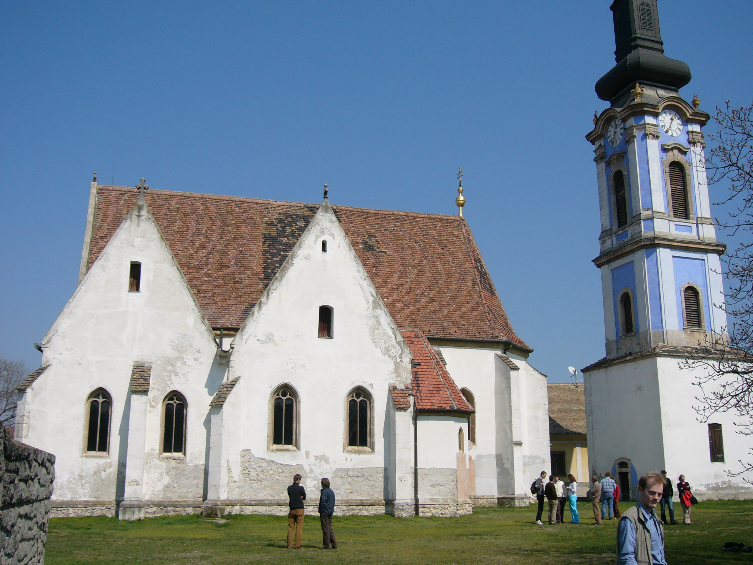 Rackeve, Hungary: Serbian Orthodox Church, 1487 April 2005 Olaf A. Koch own picture